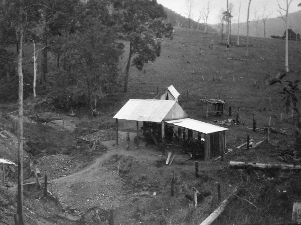 Gold mining at Kilcoy Creek, 1933 Kilcoy is in Queensland's Sunshine Coast hinterland. The town is north-west of Caboolture on the D’Aguilar Highway, just north of Lake Somerset and at the base of the Conondale Range. The area was first settled in 1841 by Scottish migrants who cleared land on the upper reaches of the Sandy and Kilcoy Creeks to run beef and dairy cattle. Timber felling and milling was also important in the early development of the town, which was established in the 1890s.